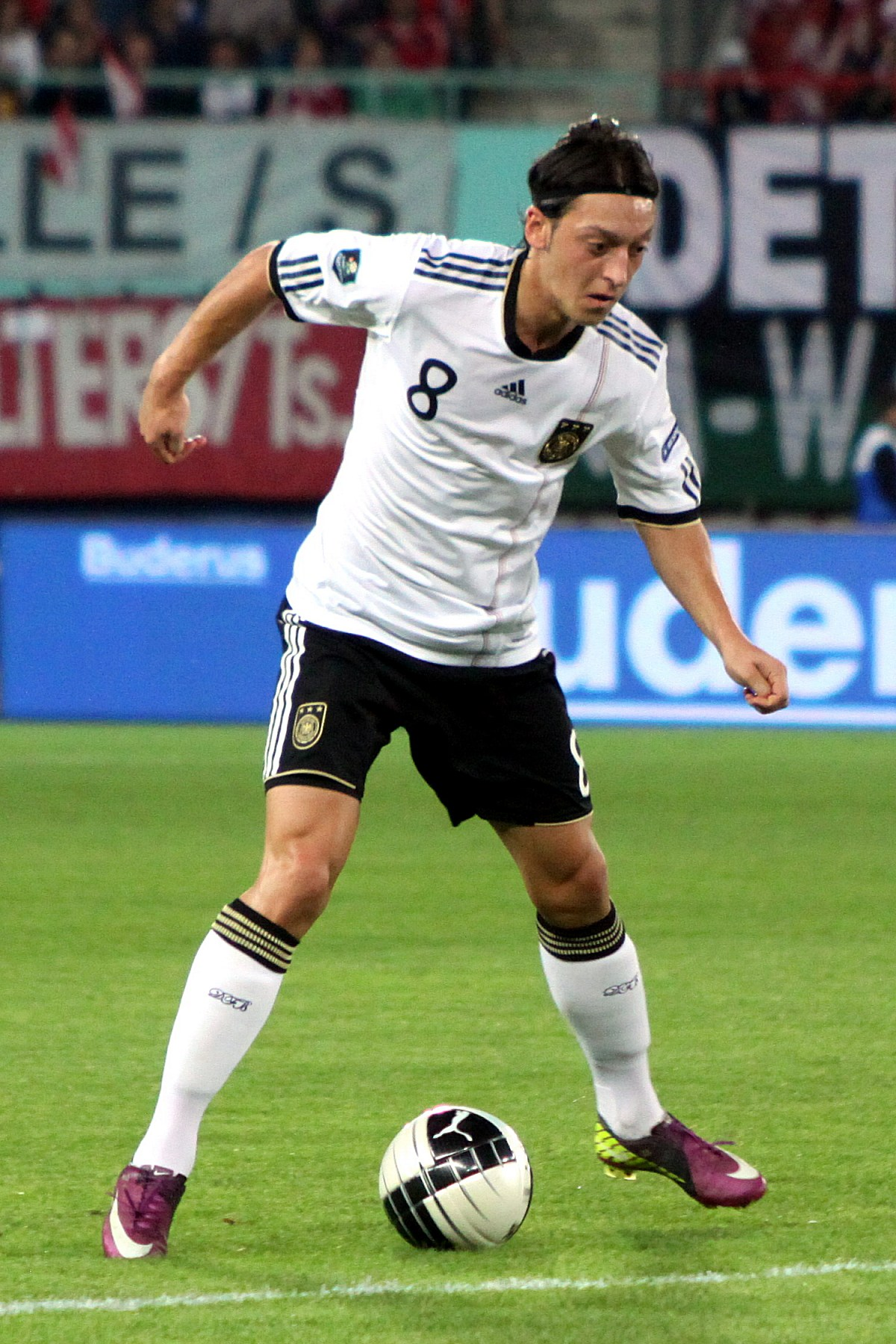 Mesut Özil (Real Madrid), german national football team